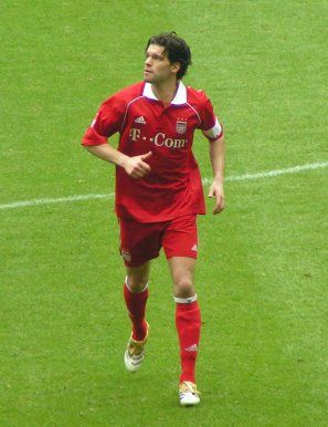 Michael Ballack during a game against Arminia Bielefeld